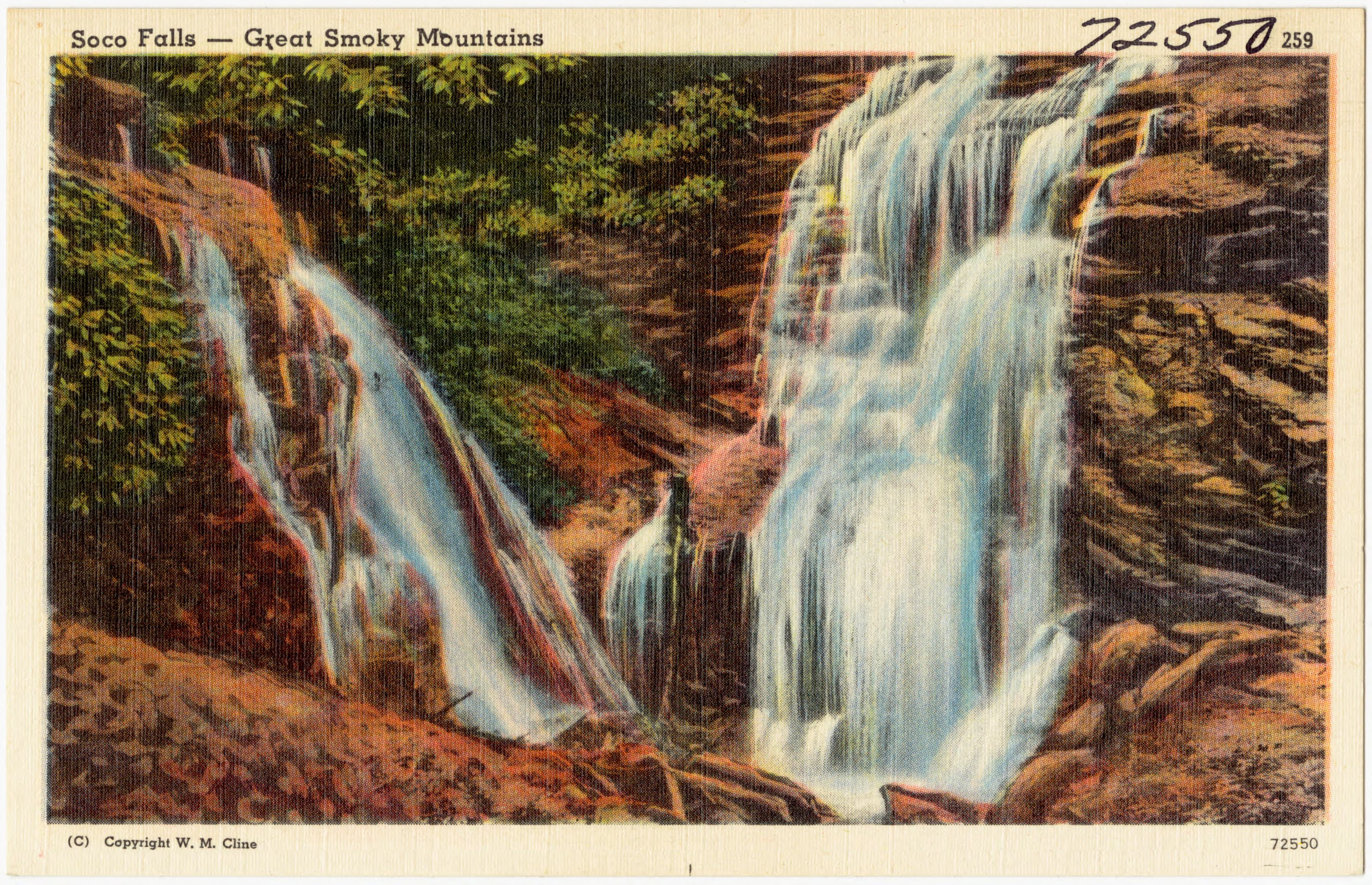 Title: Soco Falls -- Great Smoky Mountains Subjects: Waterfalls Places: Great Smoky Mountains Notes: Title from item. Extent: 1 print (postcard) : linen texture, color ; 3 1/2 x 5 1/2 in. Accession #: 06_10_019465